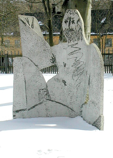 Dejeuner sur l'Herbe in sandblasted concrete, outside of the Moderna Museet in Stockholm